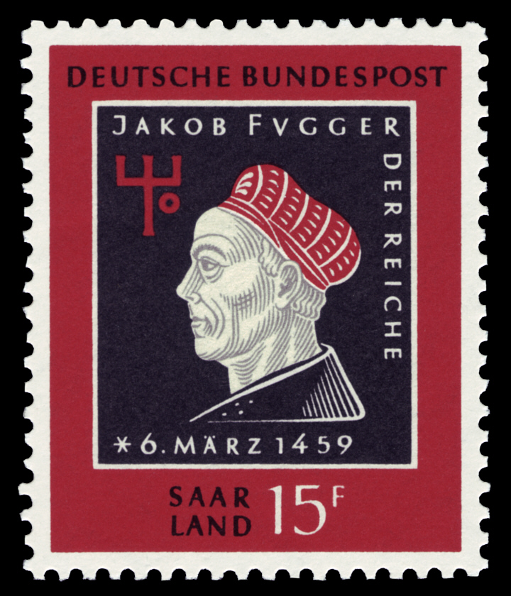 500th day of birth of Jakob Fugger (1459-1525) Graphics by Göhlert Ausgabepreis: 15 Saar-Franken First Day of Issue / Erstausgabetag: 6. März 1959 Michel-Katalog-Nr: 445 (Saarland)